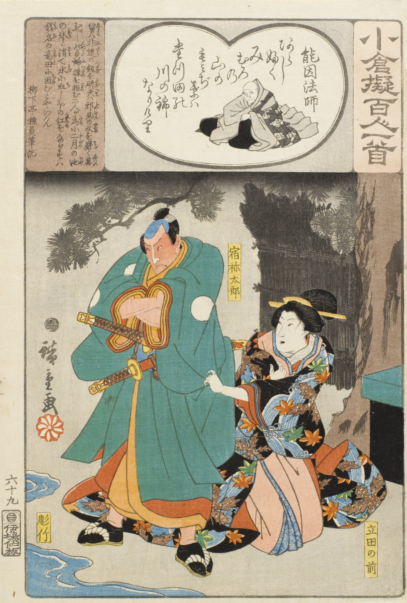 circa 1845-1849 Series: number 69 Prints; woodcuts Color woodblock print Image: 13 1/2 x 8 13/16 in. (34.29 x 22.38 cm); Sheet: 14 1/8 x 9 9/16 in. (35.88 x 24.29 cm) Gift of Arthur and Fran Sherwood (M.2007.152.40) Japanese Art